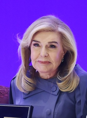 Ilham Aliyev attends opening ceremony of the 6th Global Baku Forum